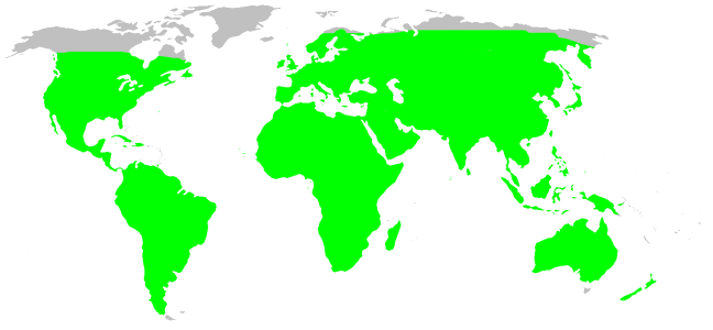 Sicariidae habitat distribution, drawn after Platnick: World Spider Catalog 7.0. This is not a precise rendering of the distribution! If you have better information, please replace this map, or send me the info, and i will redraw it.